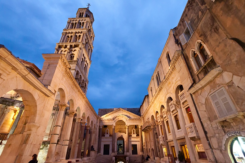 Peristyle, Diocletian's Palace, Split